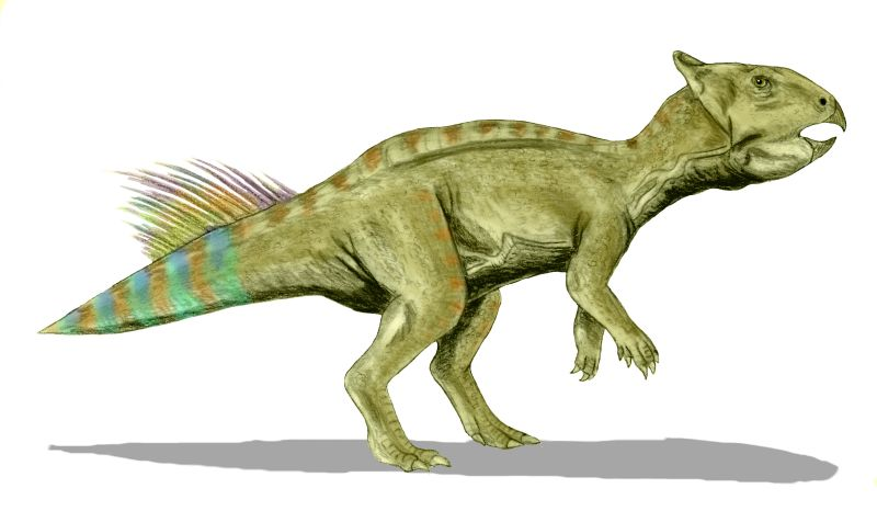 Cerasinops hodgskissi, a ceratopsian from the Late Cretaceous of Montana, after B.J. Chinnery and J.R. Horner, 2007, pencil drawing